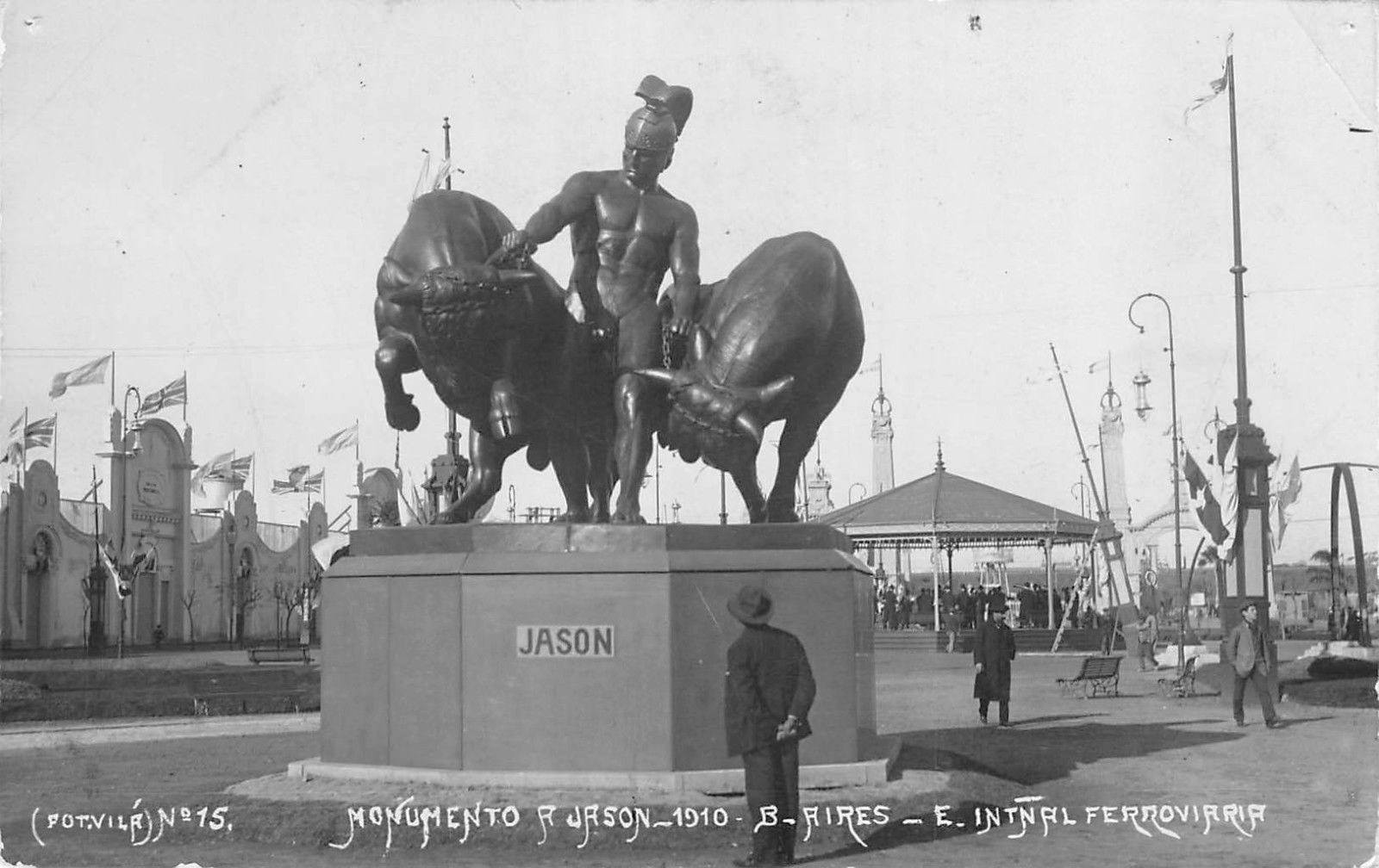 The Jason monument was the work of the German sculptor Walter Lewy, who later changed his surname to Lenck.